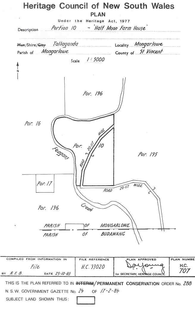 Half Moon Farm House: PCO Plan Number 288